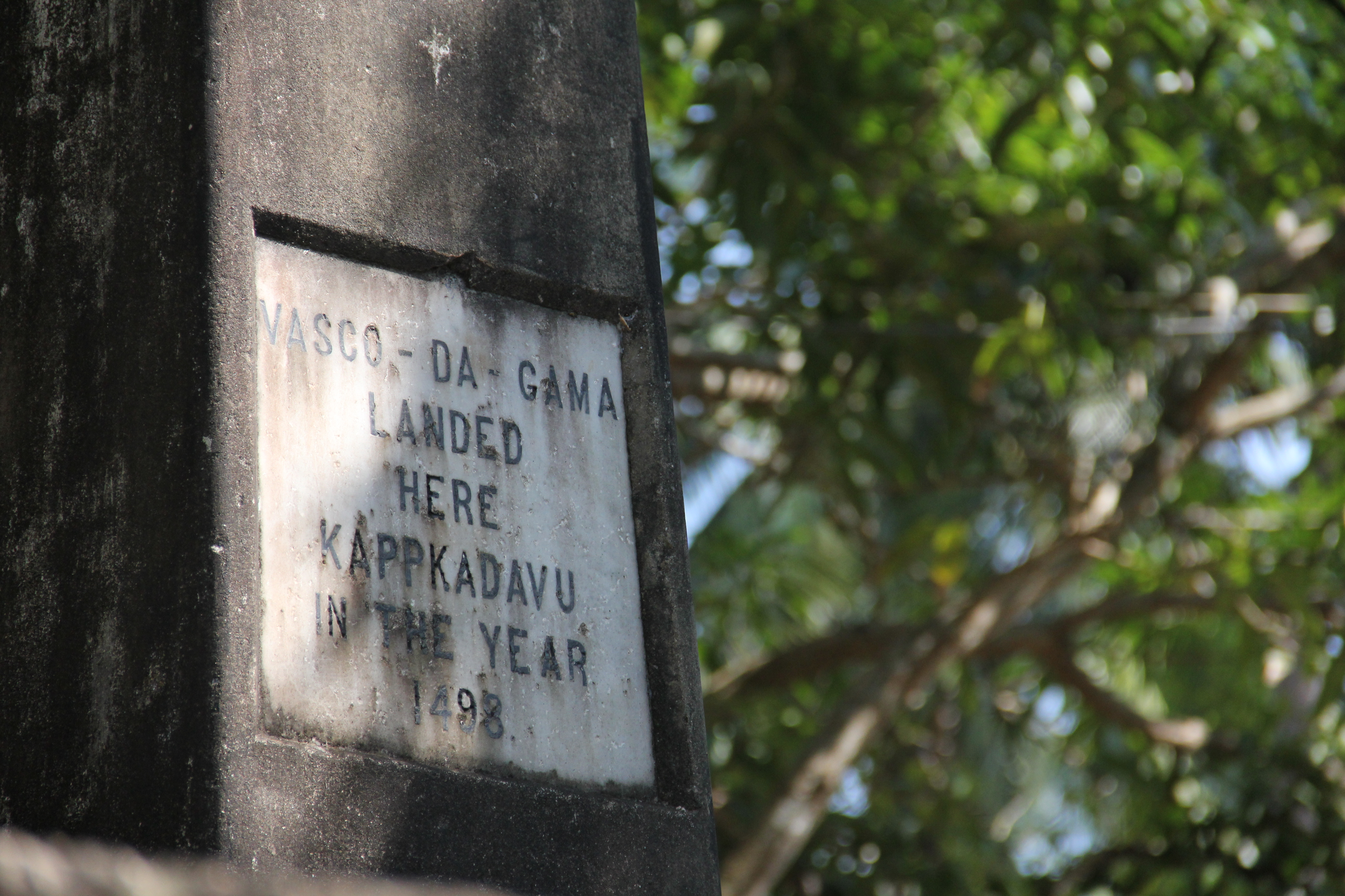 Monument at Kappad, near Calicut (now Kozhikode) in Kerala, that commemorates Vasco da Gama's landing in 1498